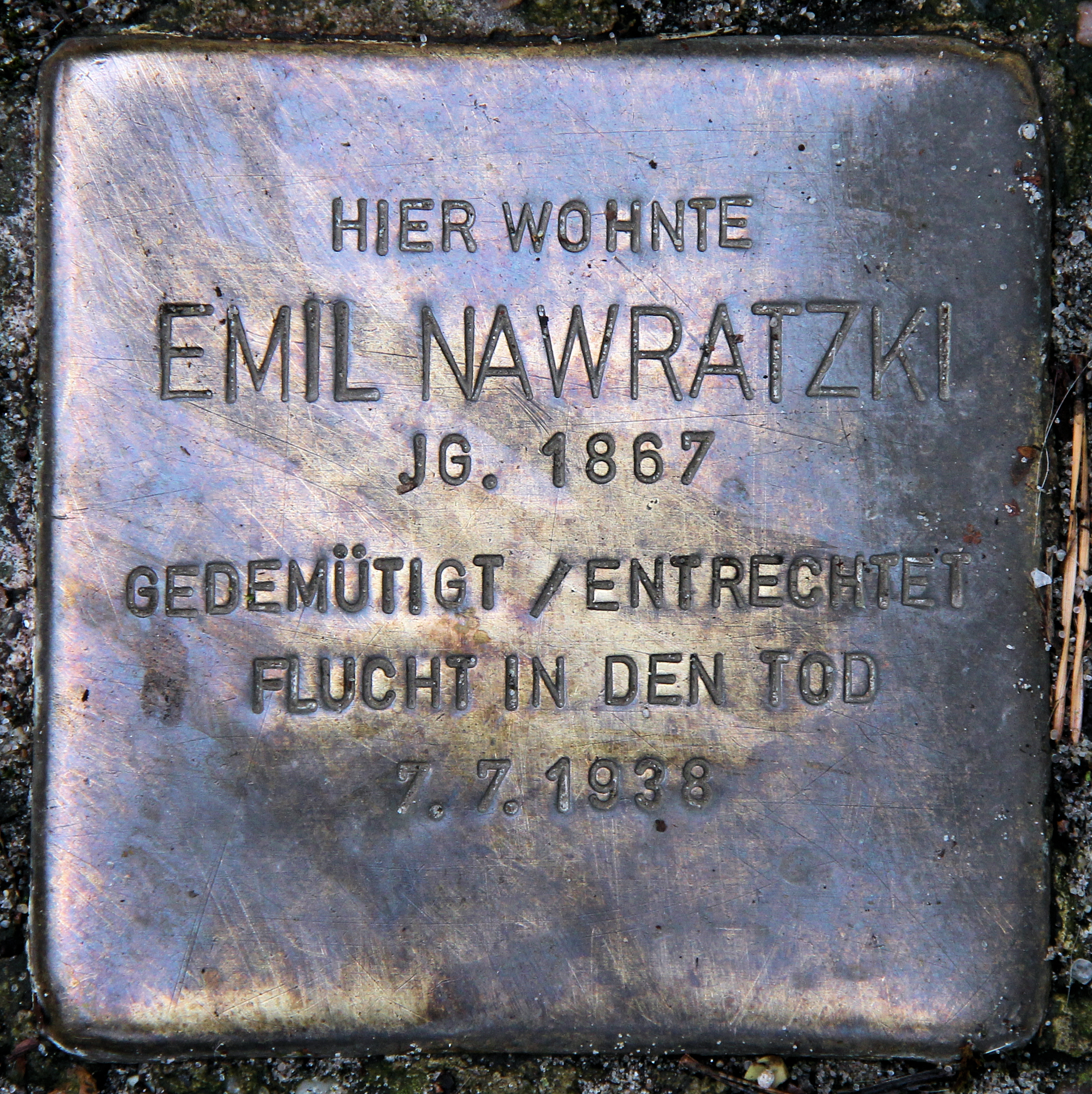 "Stolperstein" (stumbling block), Emil Nawratzki, Teutonenstraße 15, Berlin-Nikolassee, Germany Koordinate:52°25′40″N 13°11′46″E / 52.42778°N 13.19611°E